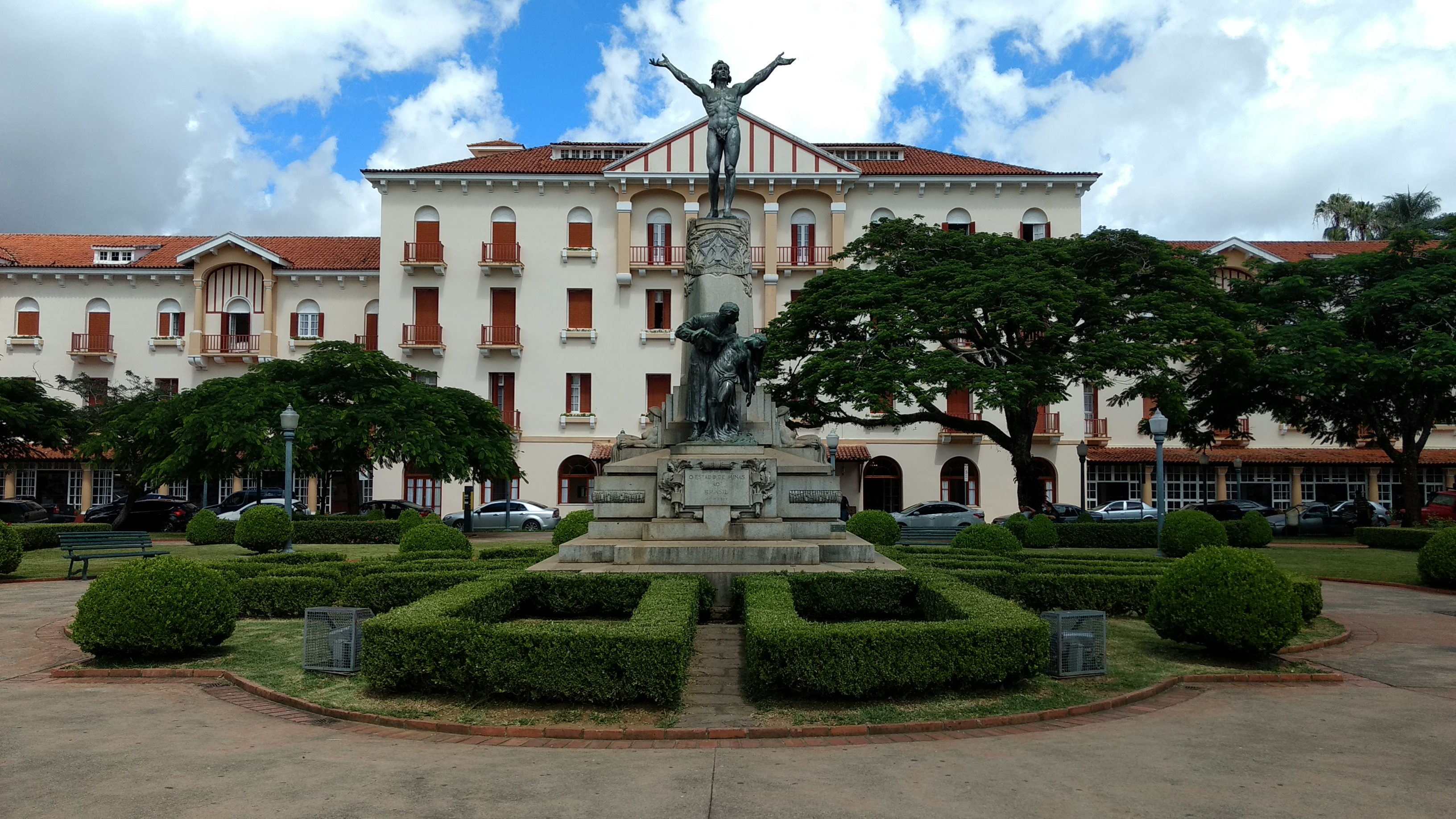 Poços de Caldas is a municipality in southwestern Minas Gerais state, Brazil, in the microregion of the same name. Its estimated population in 2009 was 151,449 inhabitants. The city has hot springs.